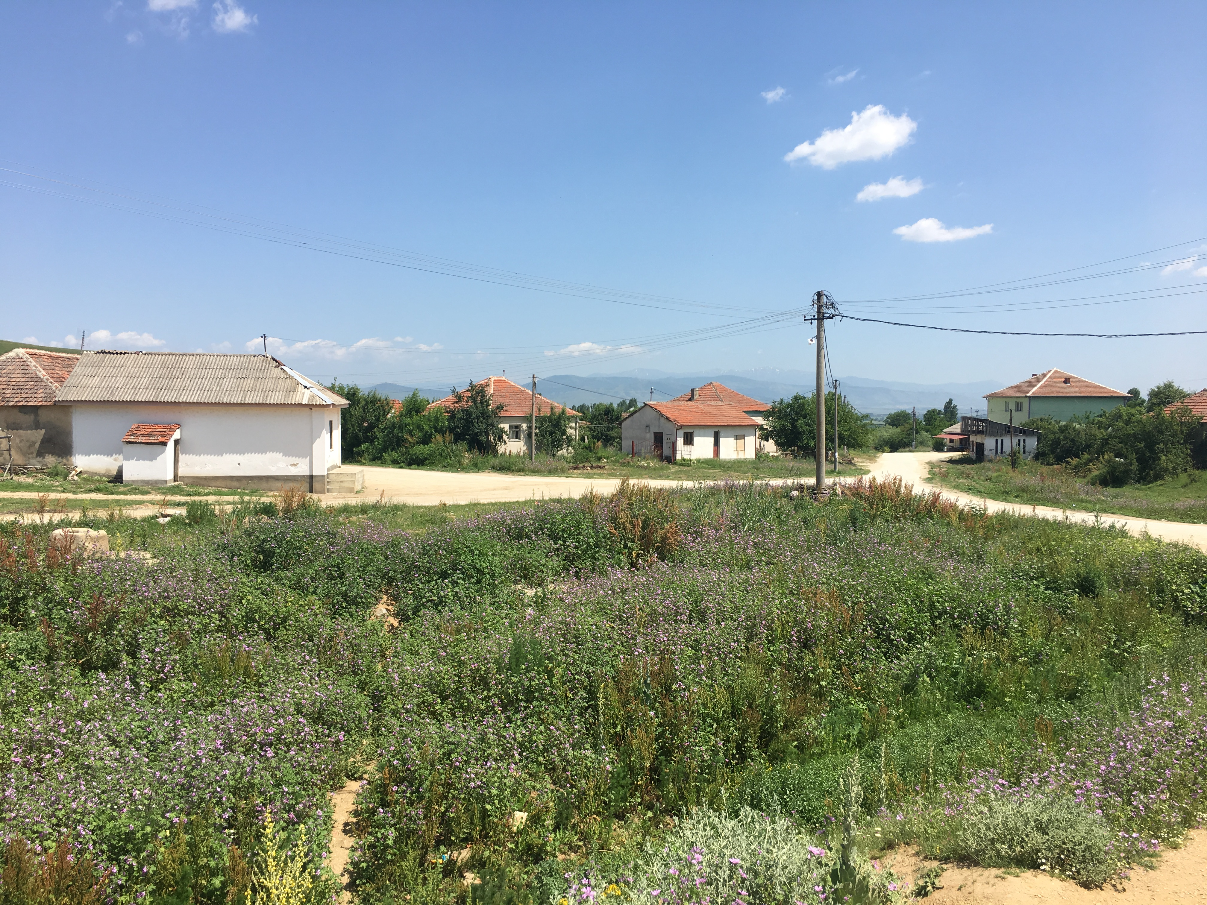 A view of the village of Dolno Srpci